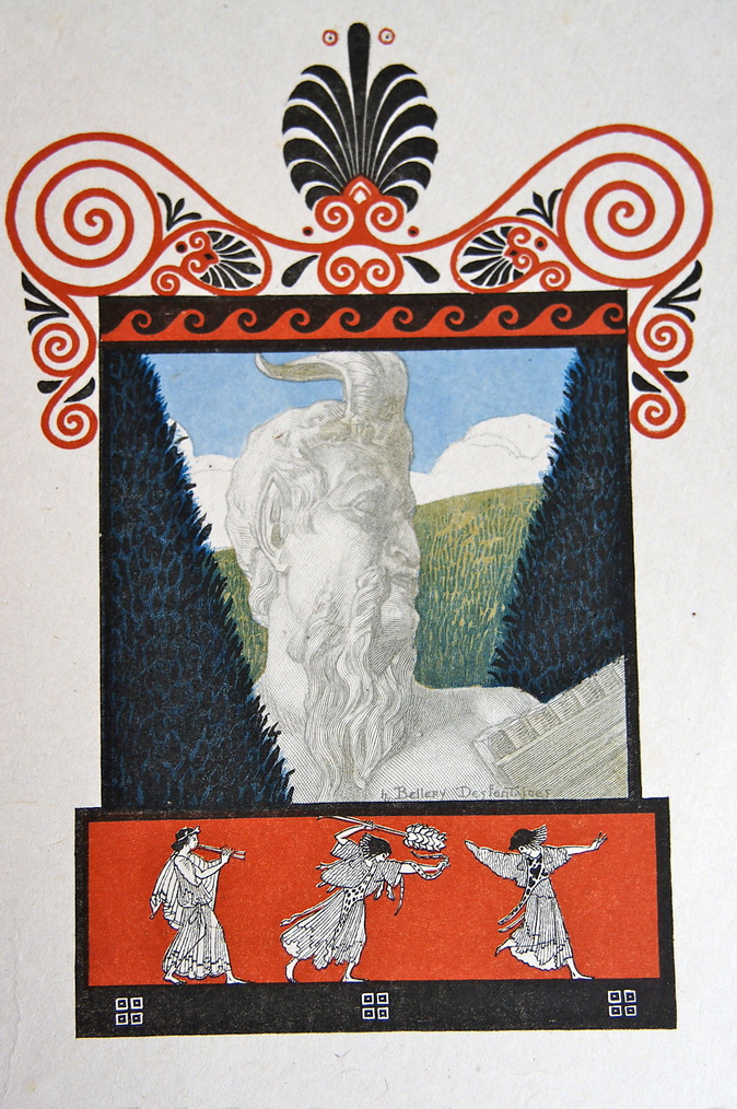 One of the 2 illustrations signed H. Bellery-Desfontaines, engraved by Ernest Florian, for Poèmes en prose. Le Centaure. La Bacchante by Maurice de Guérin, published at Edouard Pelletan, éditeur, Paris, 1901.